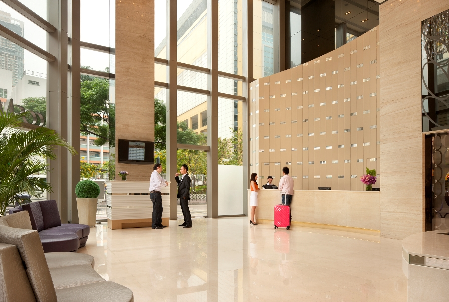 Hotel lobby day shot